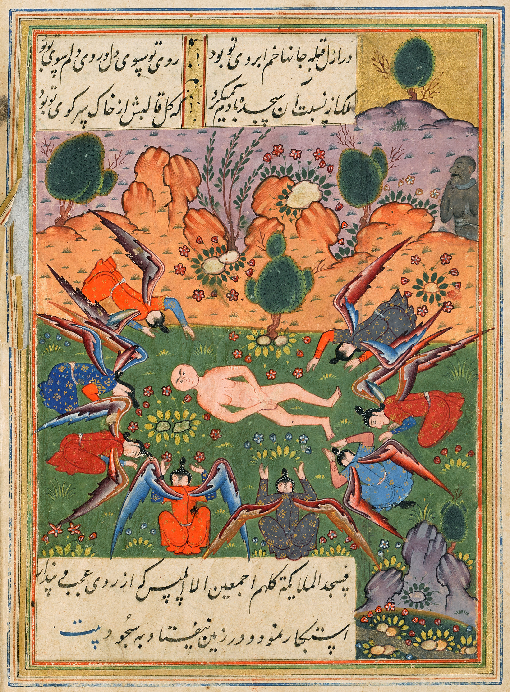 Adam honored by the angels. Islamic miniature